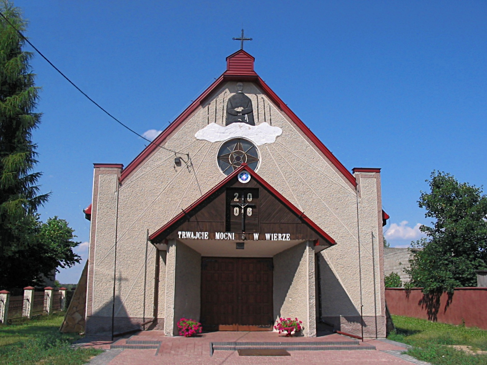 St. Maksymilian Kolbe Church in Kierz Niedzwiedzi, Poland